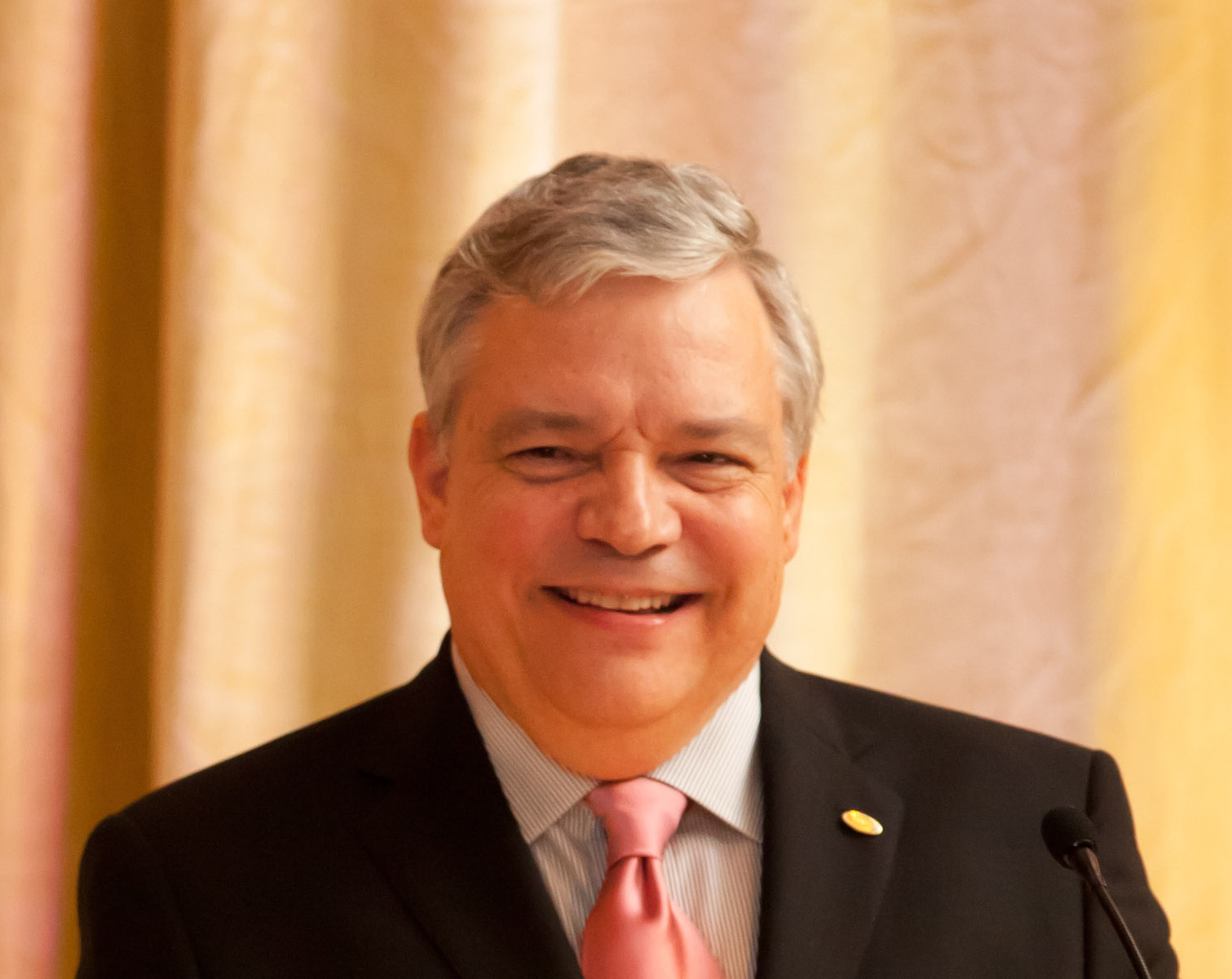 Photograph of Rodney Banks, speaker at Innovation Day, September 19, 2011 - September 20, 2011, at the Chemical Heritage Foundation, Philadelphia, PA, USA.